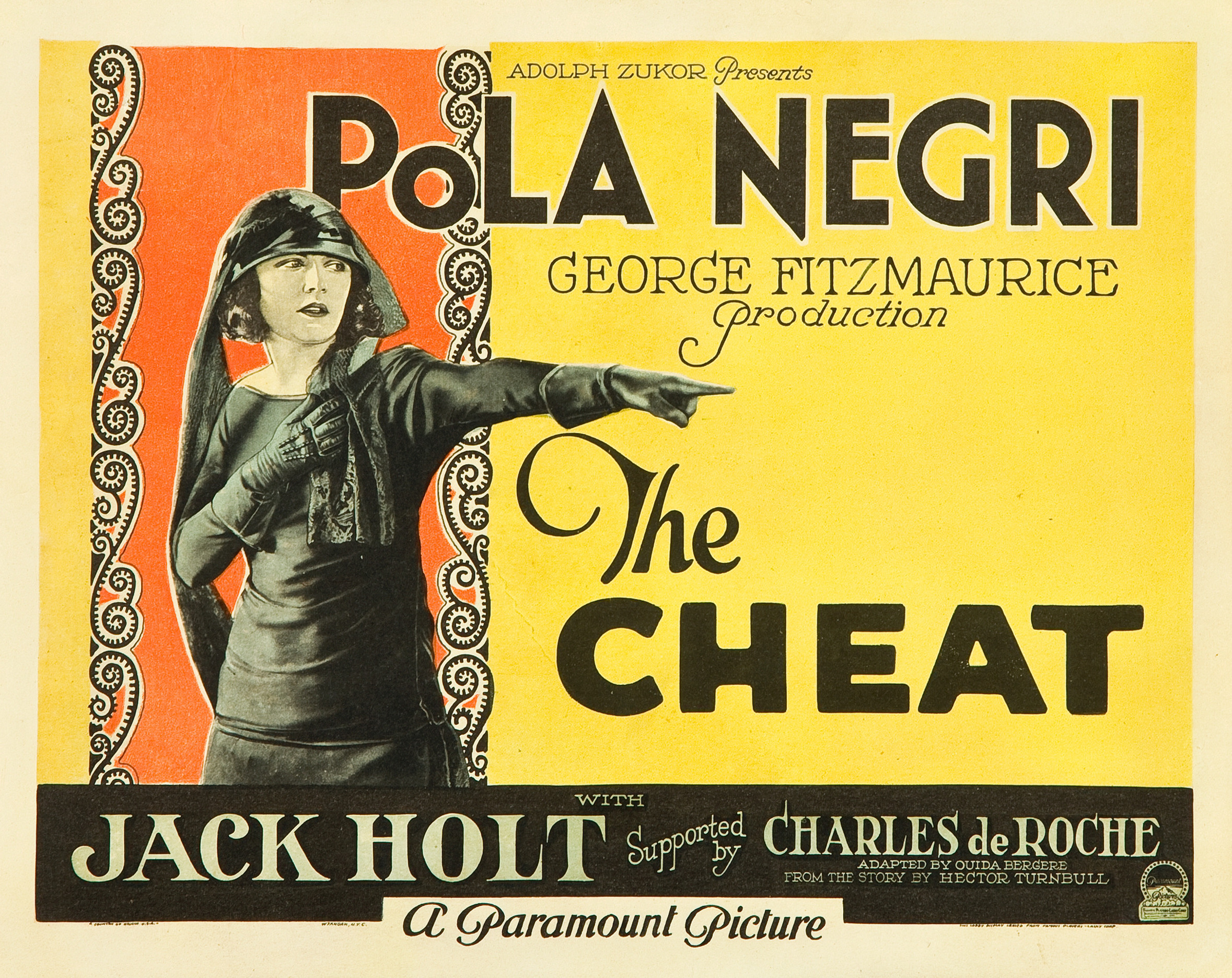 The Cheat (1923) is a silent film produced by Famous Players-Lasky and distributed by Paramount Pictures. Lobby card with no copyright claim.